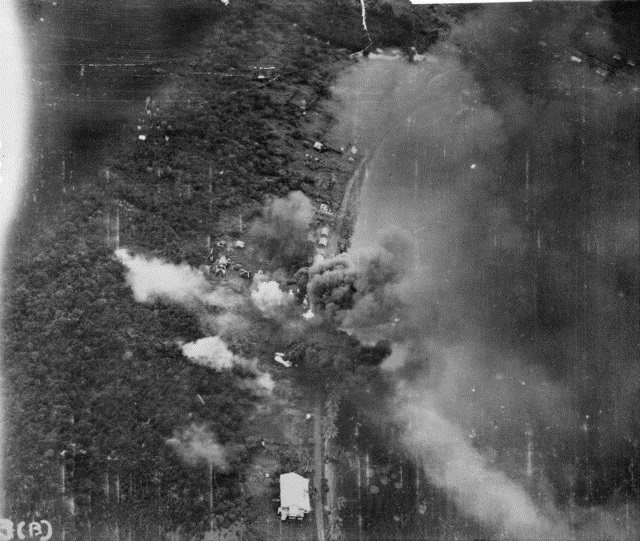 SALAMAUA, NEW GUINEA. 1943-03-16. AERIAL VIEW OF ONE OF TWO ATTACKS BY BOSTON BOMBER AIRCRAFT OF NO. 22 SQUADRON RAAF CARRIED OUT AT LOW LEVEL. FLIGHT LIEUTENANT W. E. NEWTON LED THE ATTACK AGAINST STORES BUILDINGS, GUN EMPLACEMENTS AND TWO NEWLY INSTALLED 40,000 GALLON FUEL TANKS WHICH CAN BE SEEN BLAZING UNDER A PALL OF SMOKE. FLIGHT LIEUTENANT NEWTON WAS AWARDED THE VICTORIA CROSS FOR A SERIES OF SUCH ATTACKS AT THIS TIME.